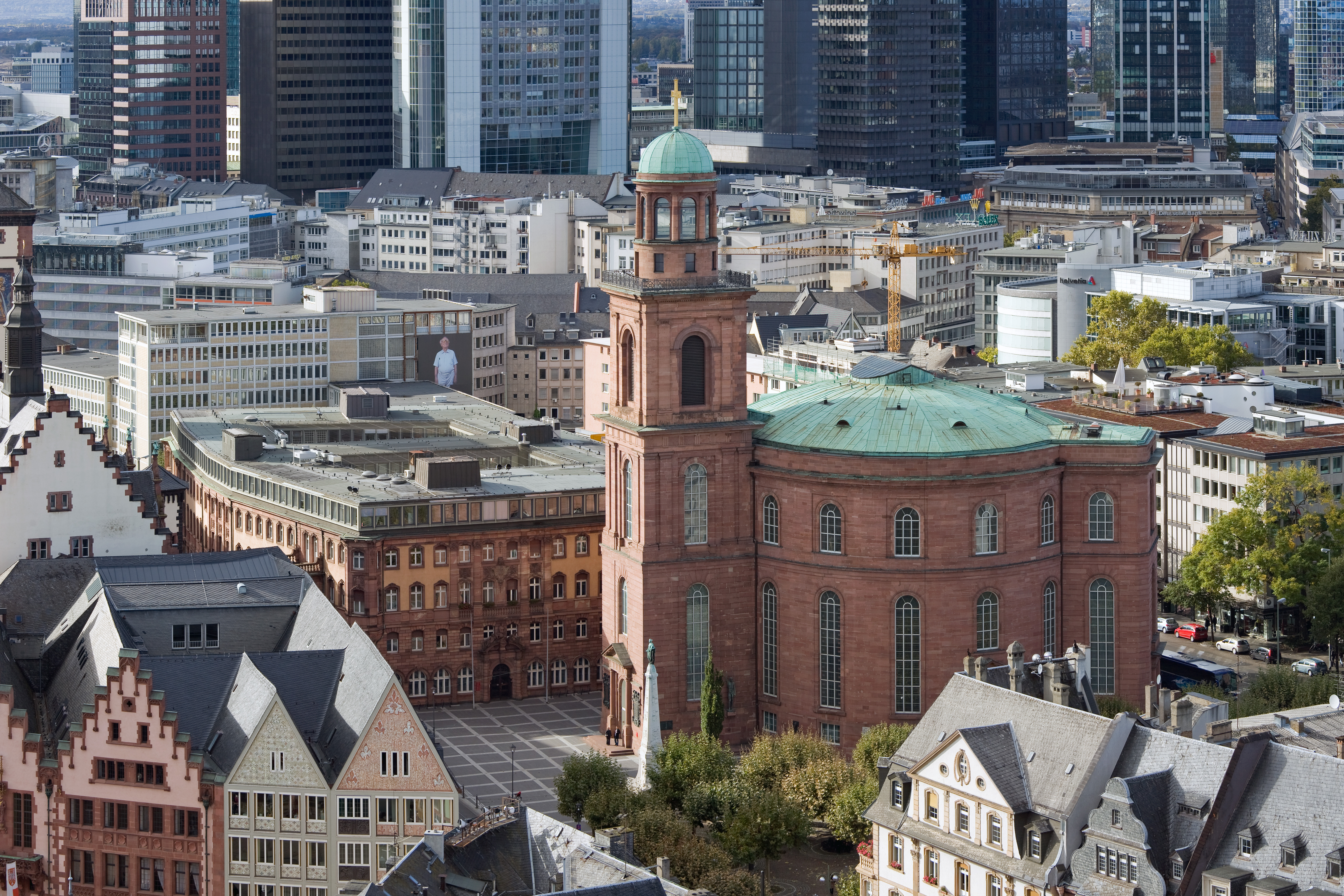 Frankfurt on the Main: Paulsplatz (St. Paul's Square) with Paulskirche (St. Paul's Church) as seen from the tower of Kaiserdom St. Bartholomaeus (Frankfurt Cathedral)